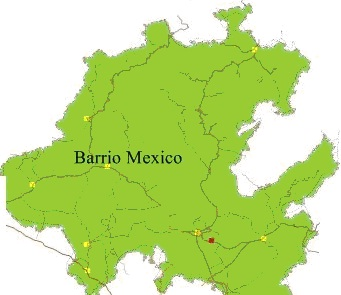 This is certainly not a bario in the DR, looks more like Mexico City. Esto ciertamente no es un vario en la RD. Si los ríos de lino no pueden estar en San Pedro de Macorís. Si los caminos de lino pueden no estar en San Pedro de Macorís.